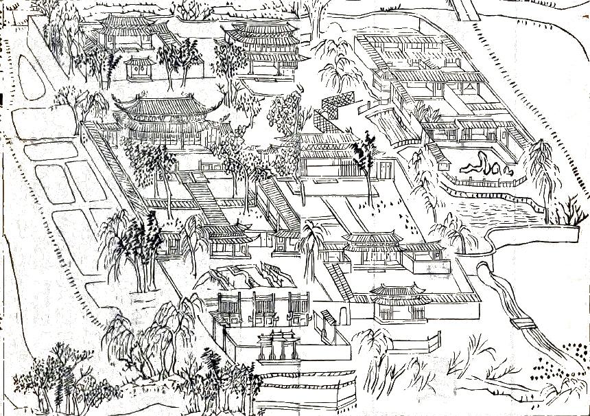 Map of the Shanghai Confucian Temple